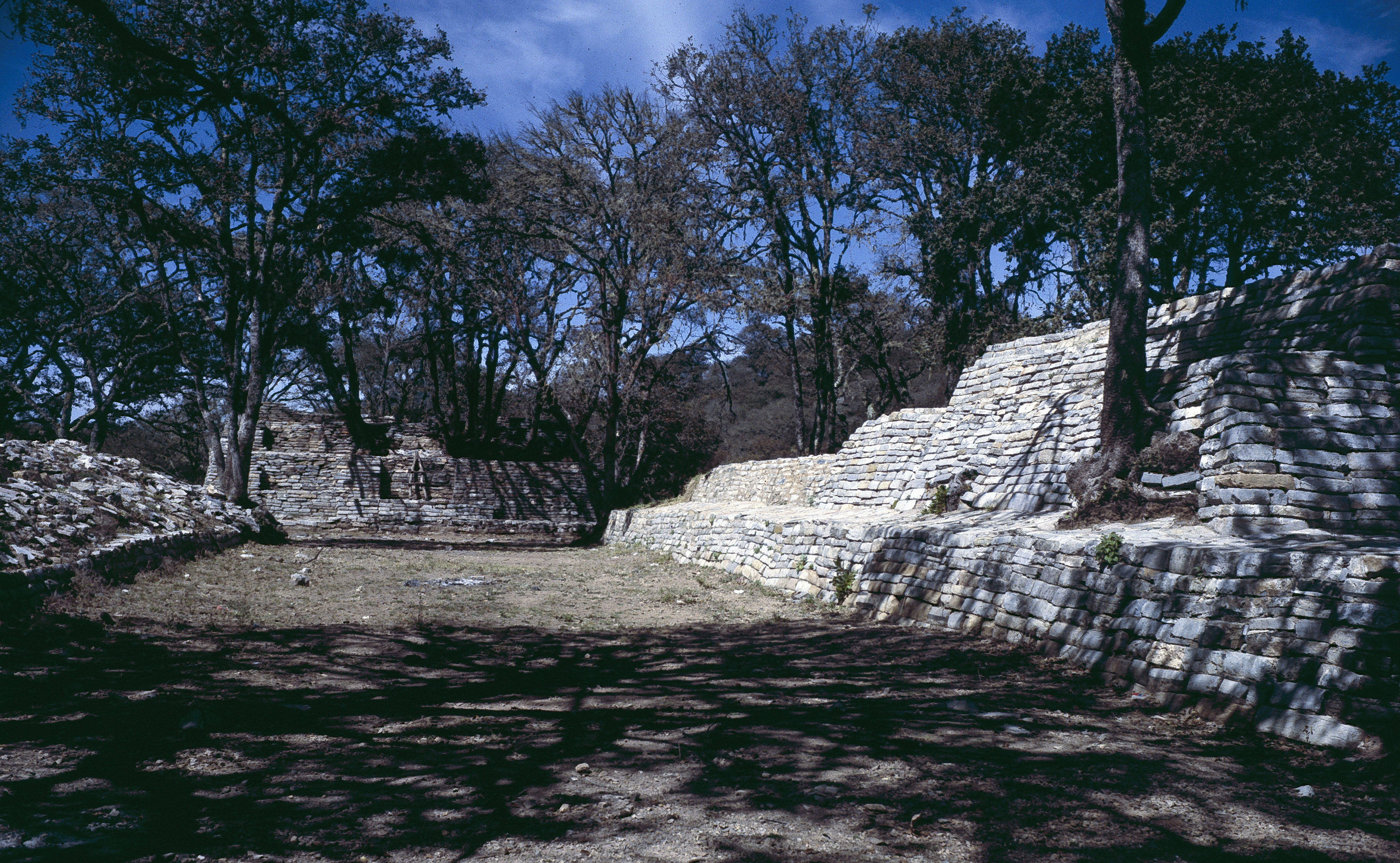 Ball court at Las Ranas site, in Querétaro state, central Mexico.